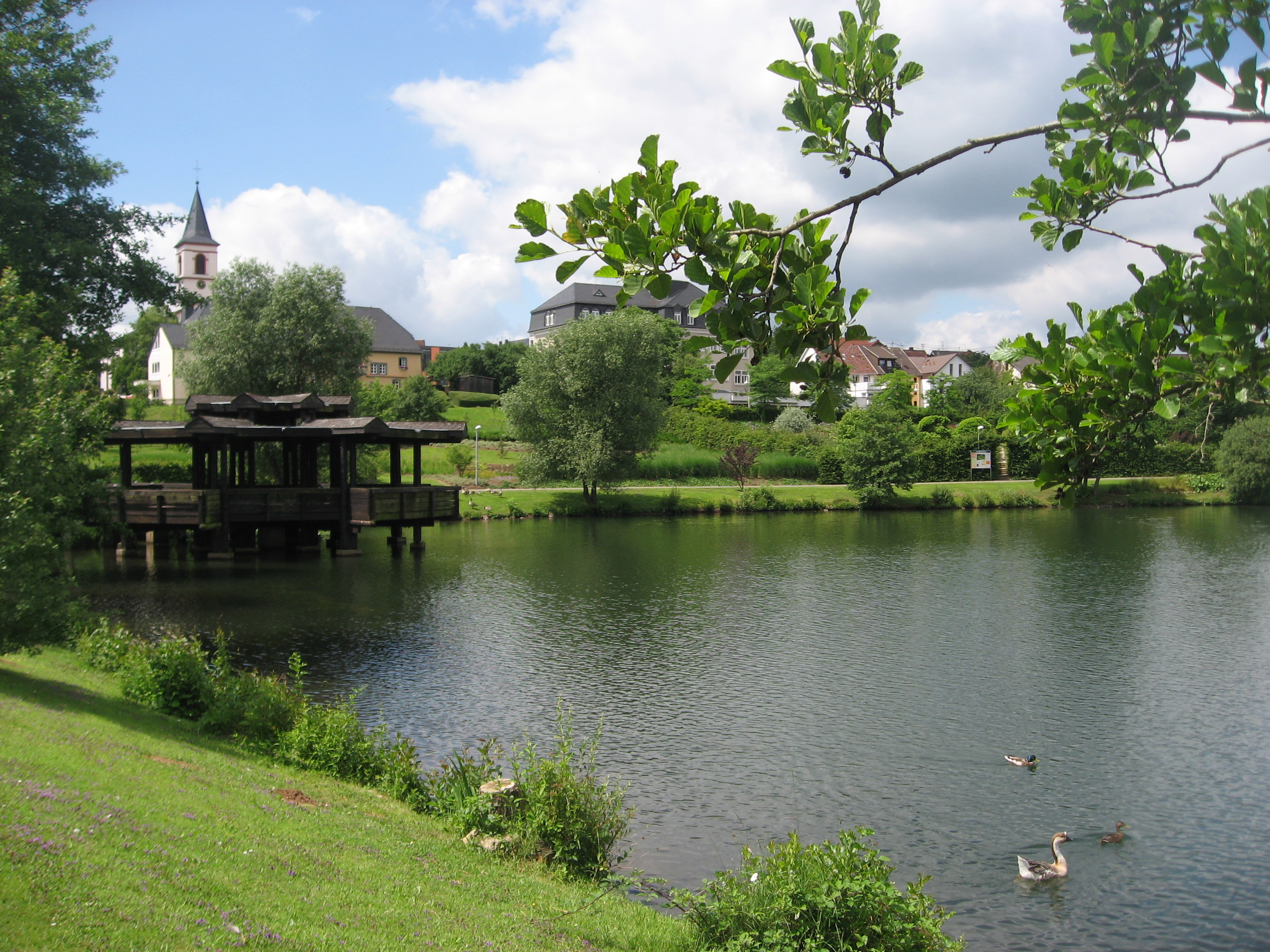 View of the Kurpark Weiskirchen with Pavilion